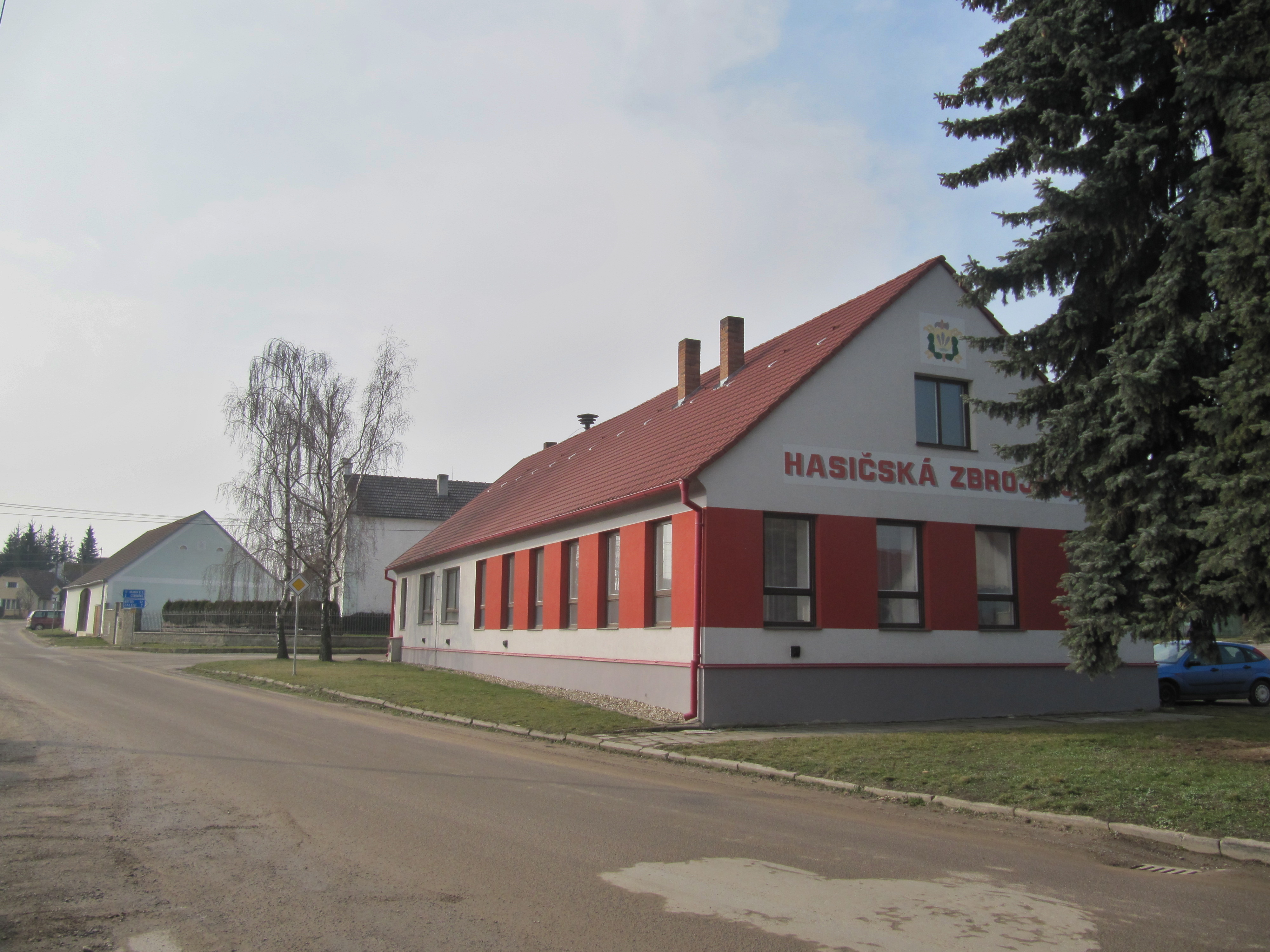 Blížkovice, Znojmo District, Czech Republic.